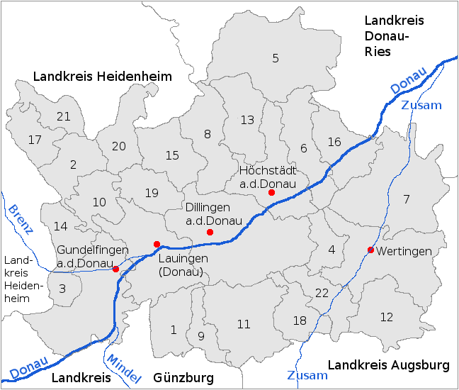 the district of Dillingen